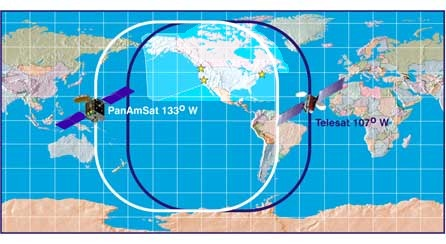 Image showing the expected signal footprint of the two next generation WAAS satellites. Edited by Denelson83 to reflect expanded WAAS service area.